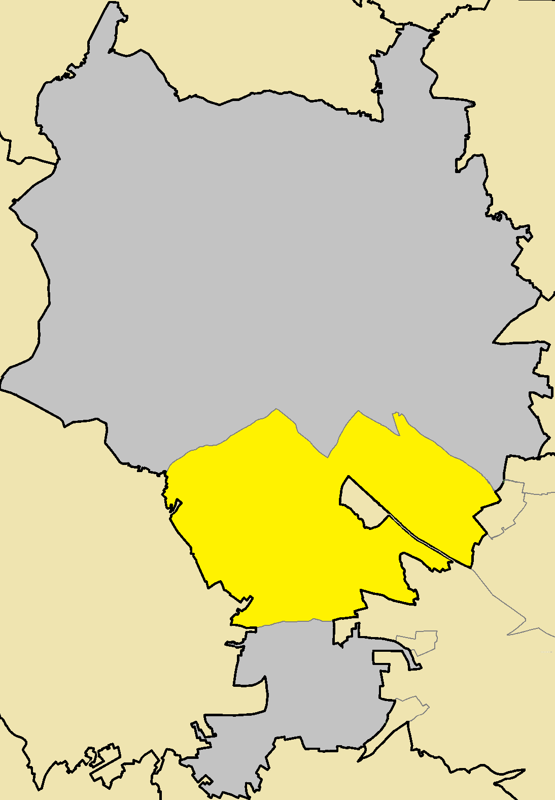 Agios Fanourios in Aradippou Municipality.